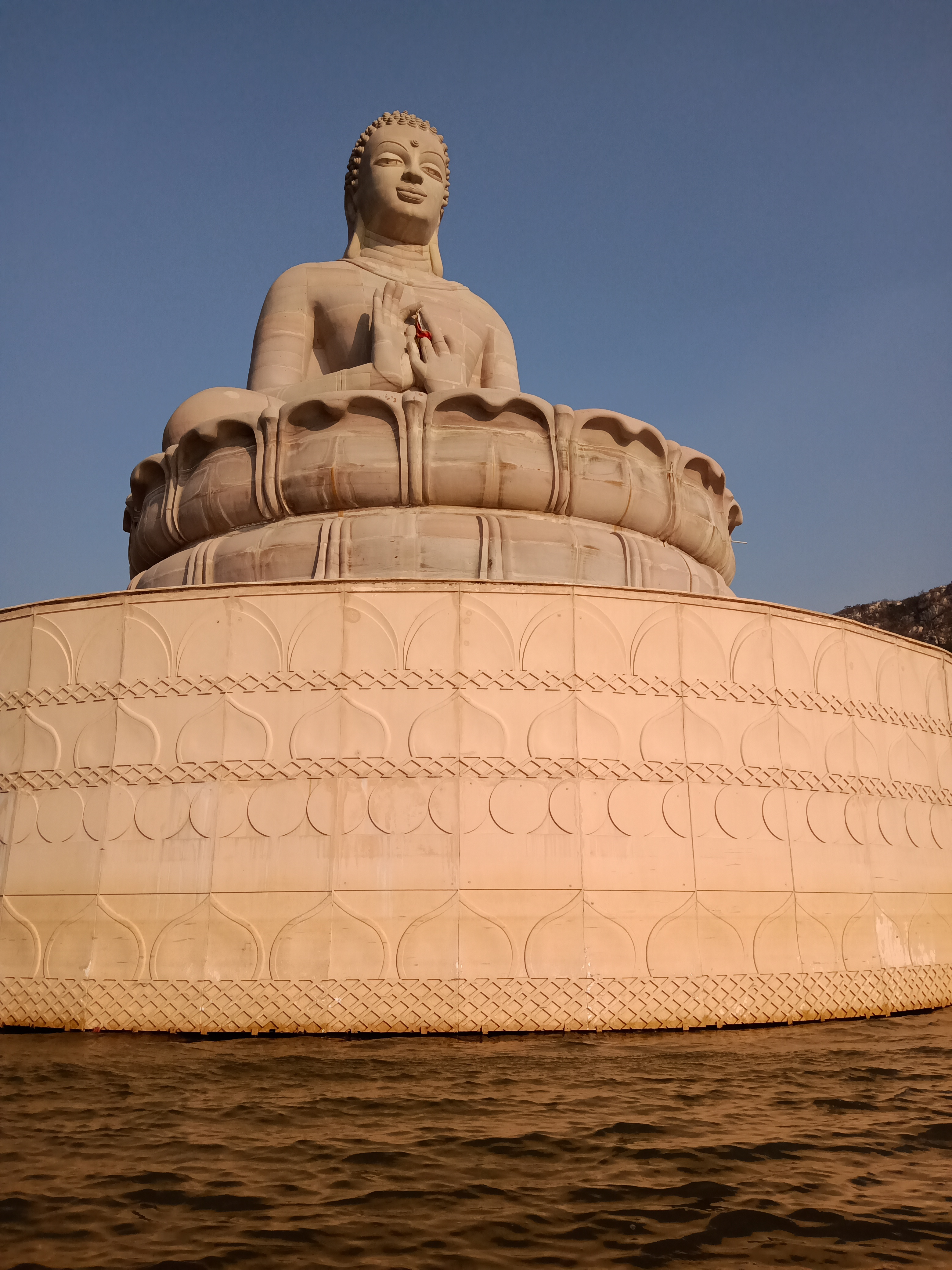 Statue of Buddha in Ghoda Katora Lake of Rajgir